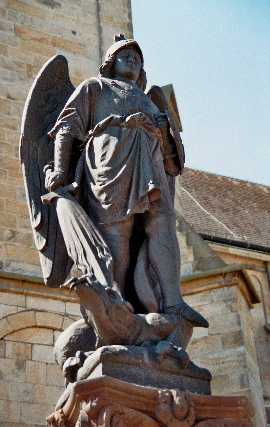 Archangel Michael Memorial (Michaelsbrunnen) at the market square of Mettingen, Kreis Steinfurt, North Rhine-Westphalia, Germany. It is listed as a cultural heritage monument.